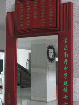 The mirror with Mirror Motto,located in Qinjian Building,Chongqing Nankai Middle School.